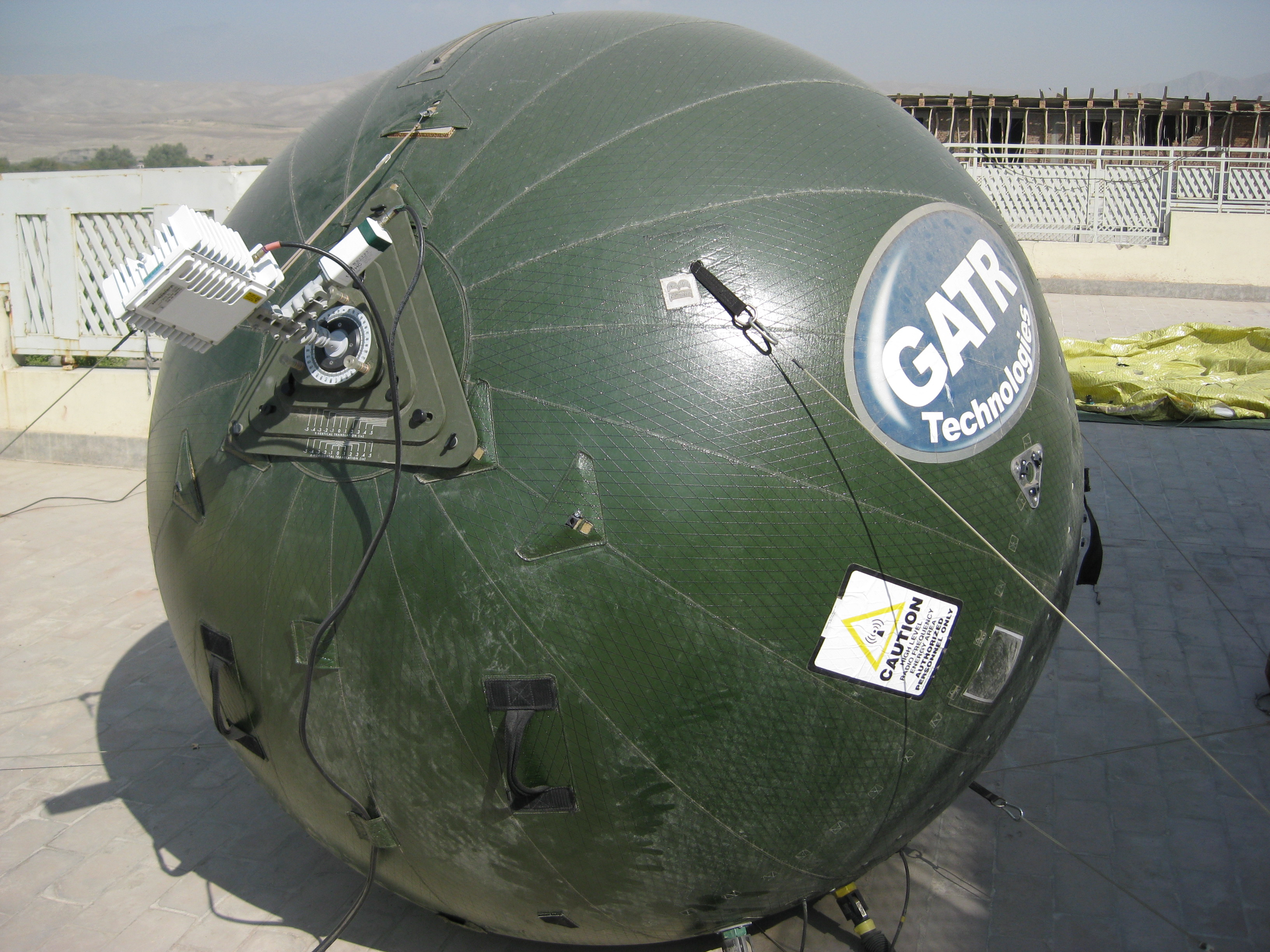 Dave's satellite dish is a GATR, which is ingenious. It blows up, and the reciever/sender mounts tor the front. The 'dish' is a fabric membrane that stretches across the middle. My favourite part is how the curvature is put across the dish -- the blower has two entries, one on each side of the membrane. There's knob where you can modulate the ratio of air going in each of the sides, and thus by putting more air in one side you can change the curve of the dish. So clever. You point the dish by changing the length of the tie down ropes. The whole thing deflates and fits in a suitcase. It's an order of magnitude lighter and smaller than equivalent hard dishes. I've got no commercial connection to the company, but I've used their stuff in the field on multiple occasions, and I think they're great.